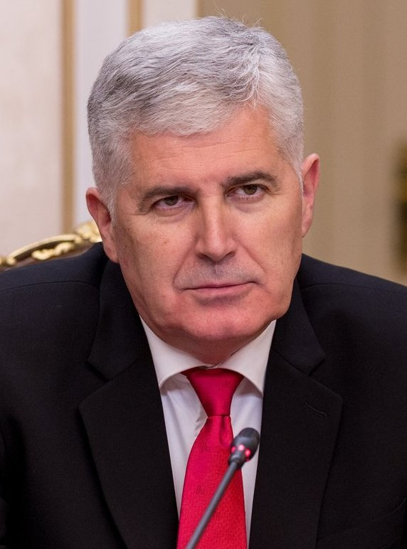 Dragan Čović (born 20 August 1956) is a Bosnian Croat politician